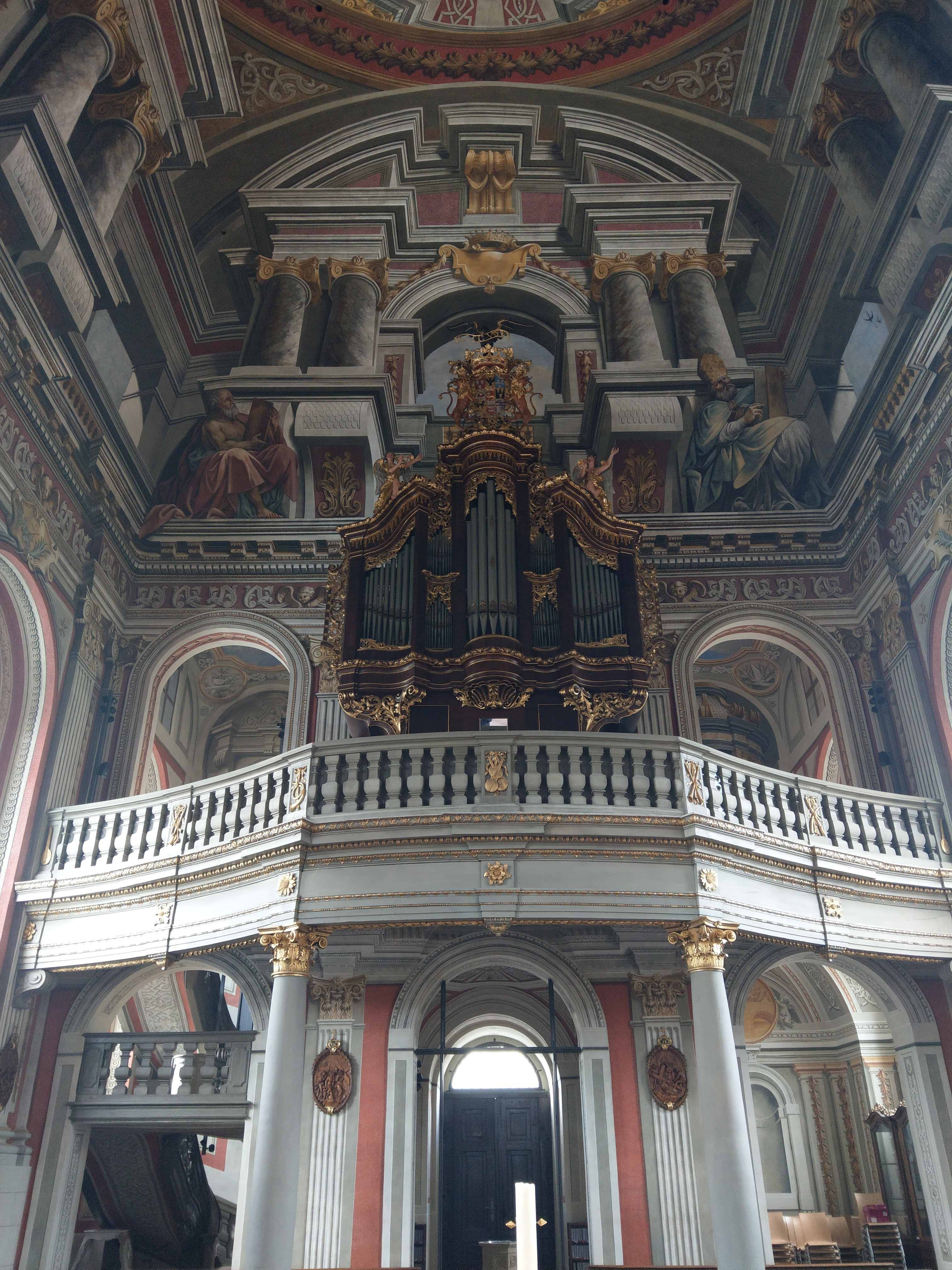 Organ of St. Mauritius Church at Wiesentheid, Germany